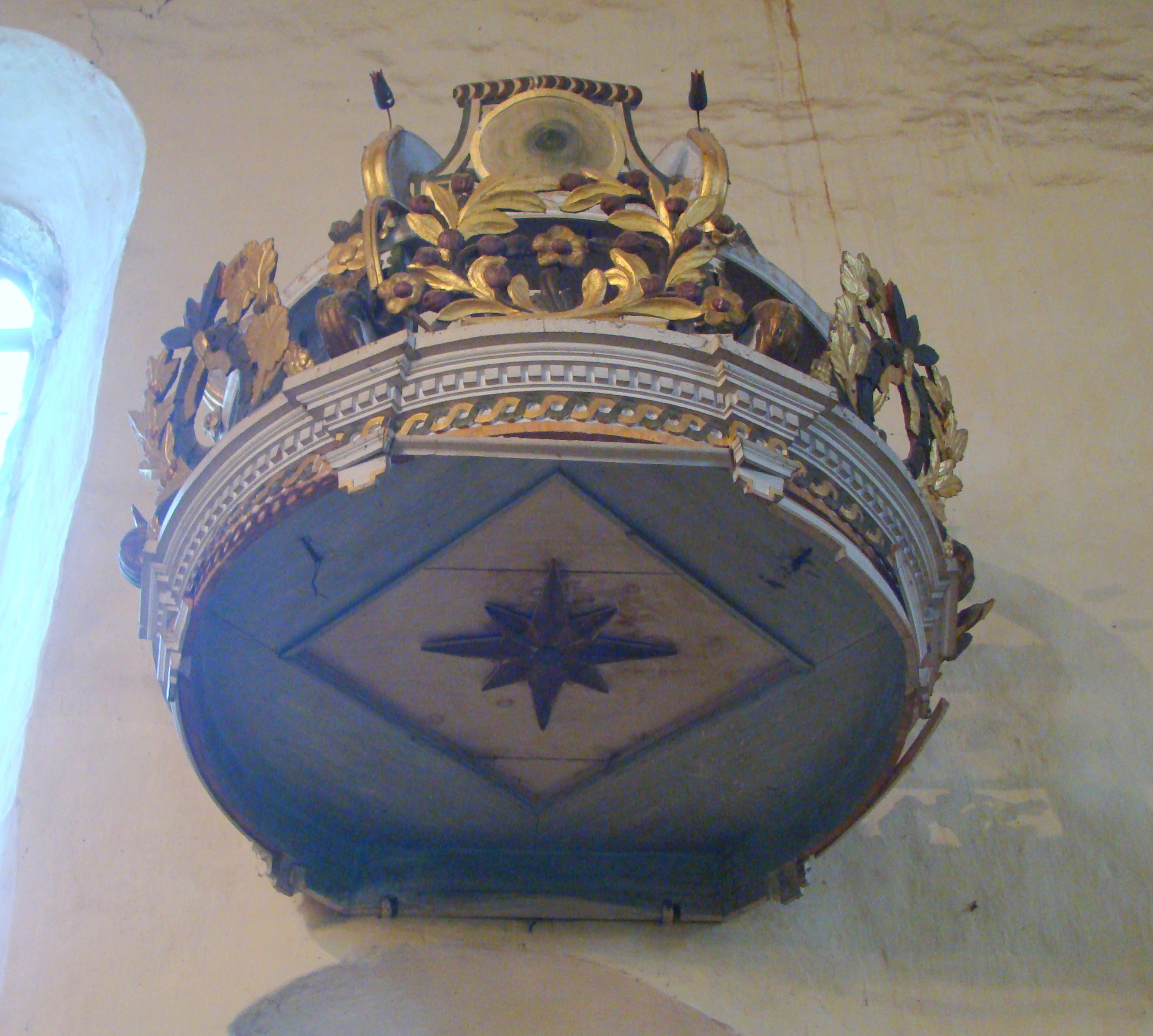 Lutheran church in Rupea, Braşov County, Romania